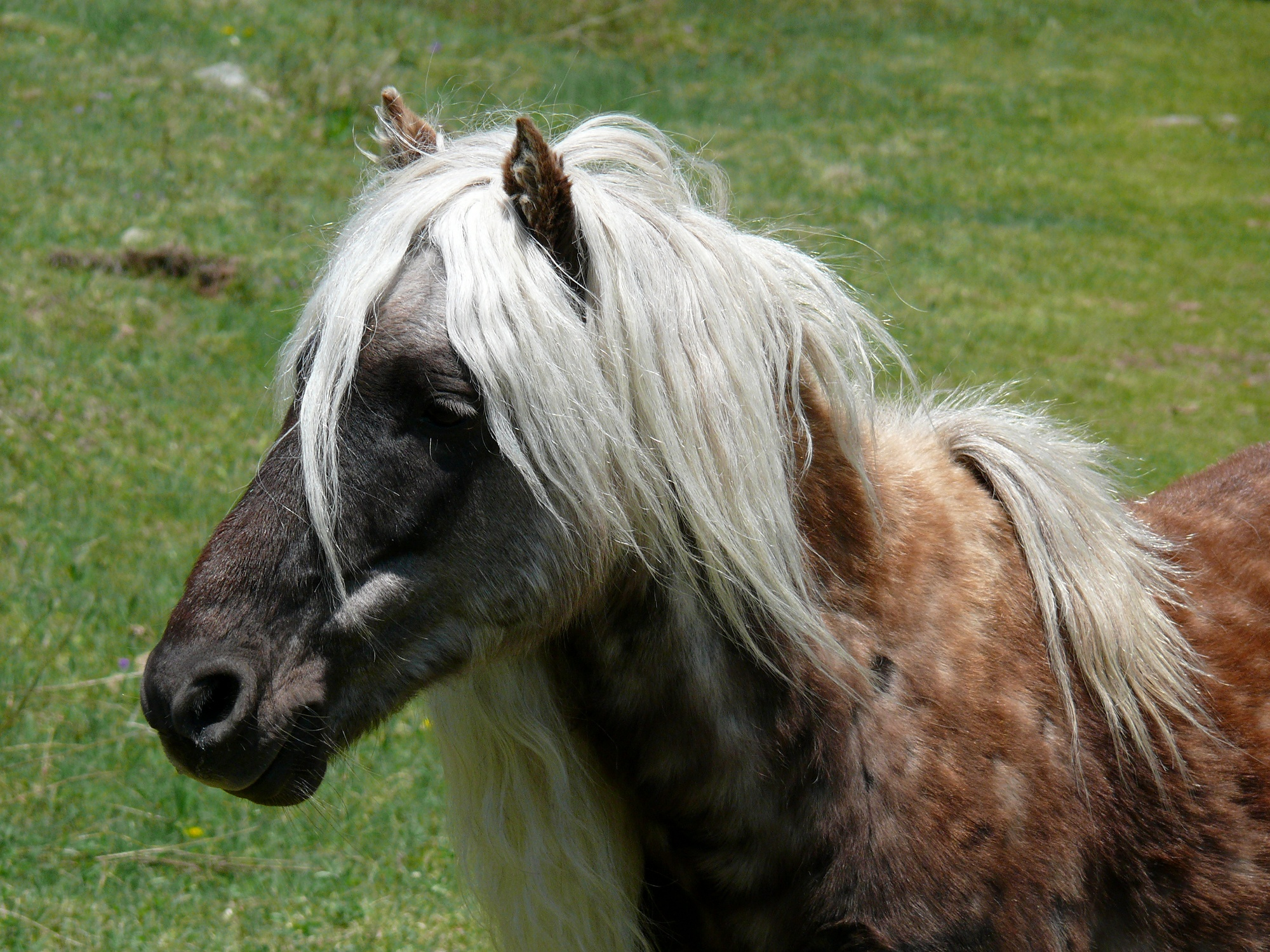 This stallion is part of an introduced herd of wild ponies that has lived on the balds of Wilburn Ridge in Grayson Highlands State Park for over 50 years. Photo taken with a Panasonic Lumix DMC-FZ50 in Grayson County, VA, USA. Cropping and post-processing performed with The GIMP.